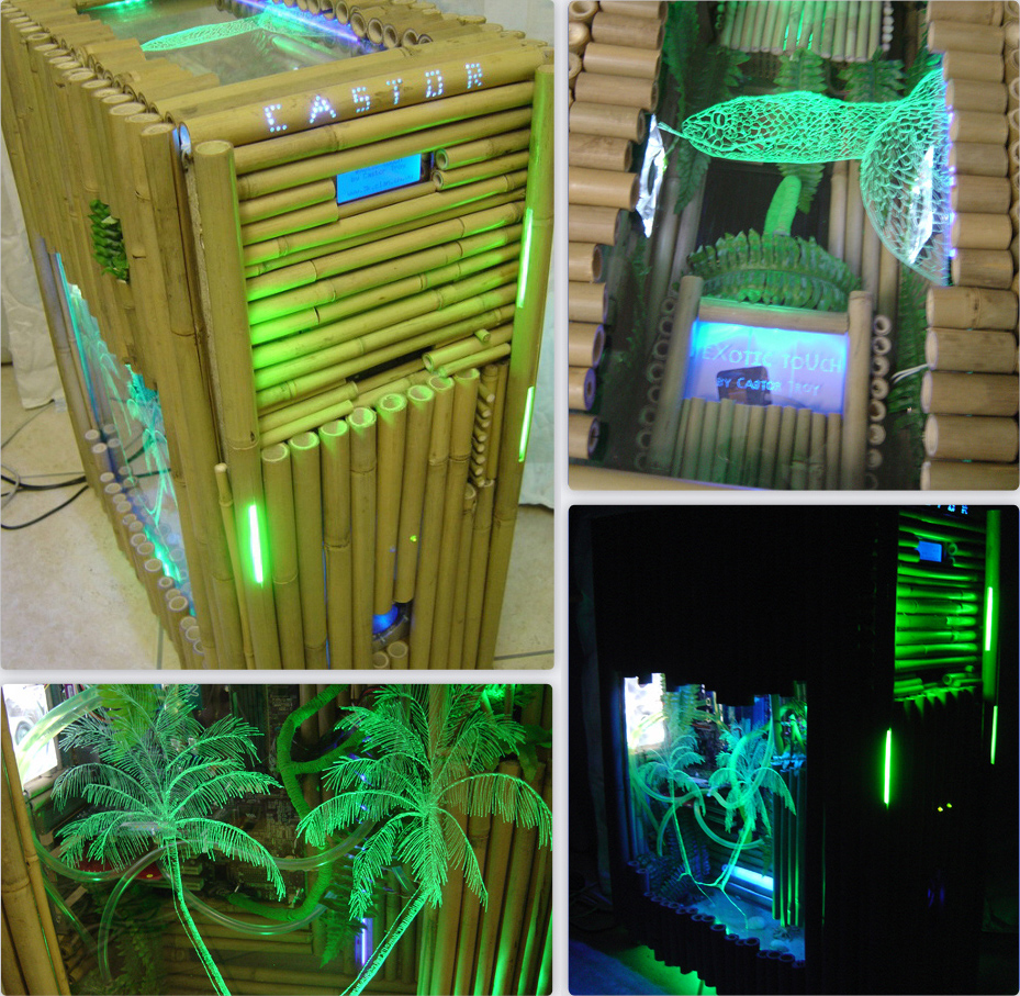 Custom Case made of wood / bamboo. More information here